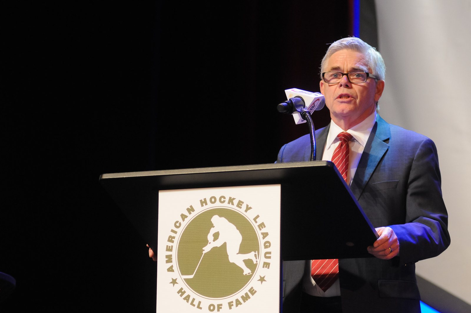 Lindsay A. Mogle/AHL